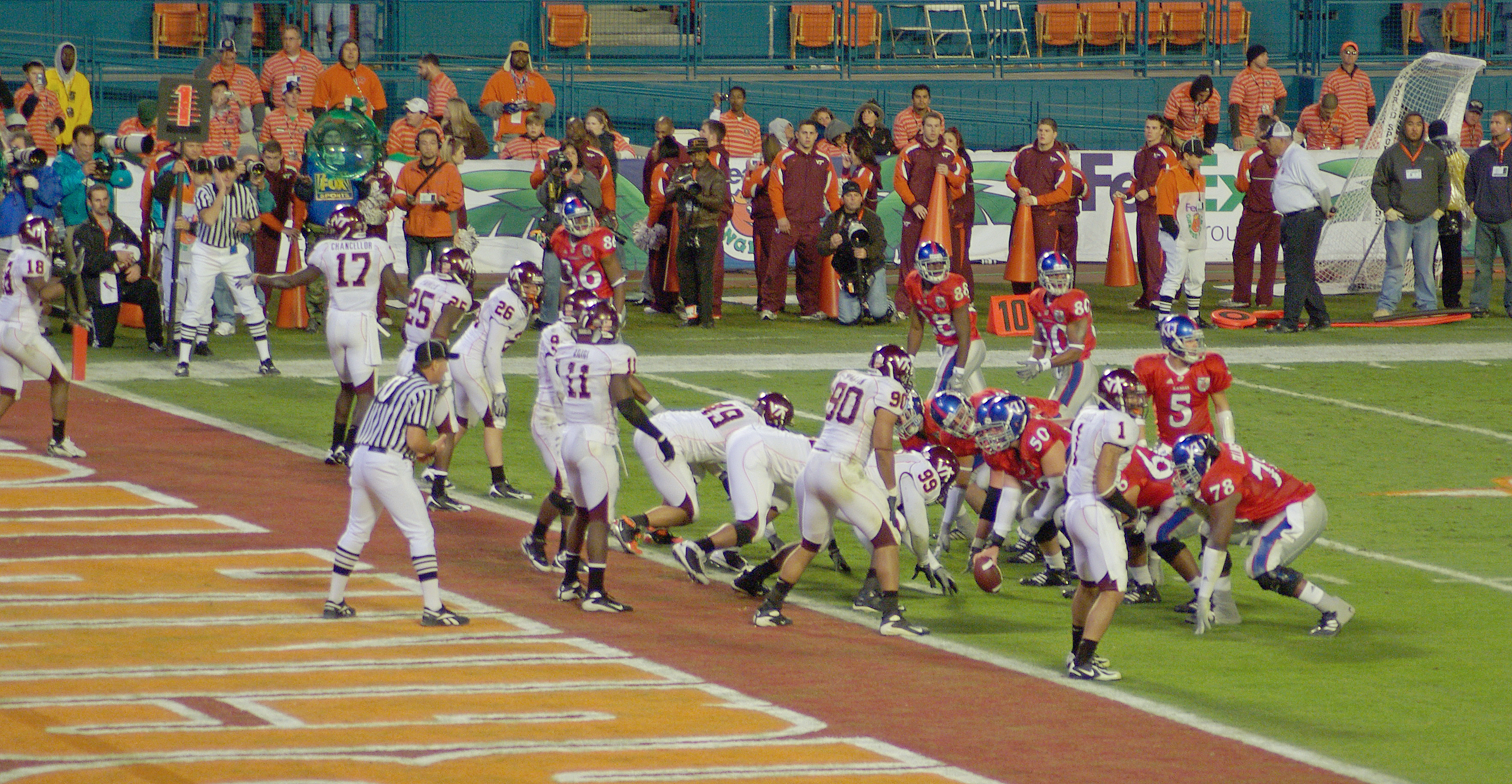 The Kansas offense lines up at the one-yard line. A fumble and two penalties would deny them a touchdown, however.